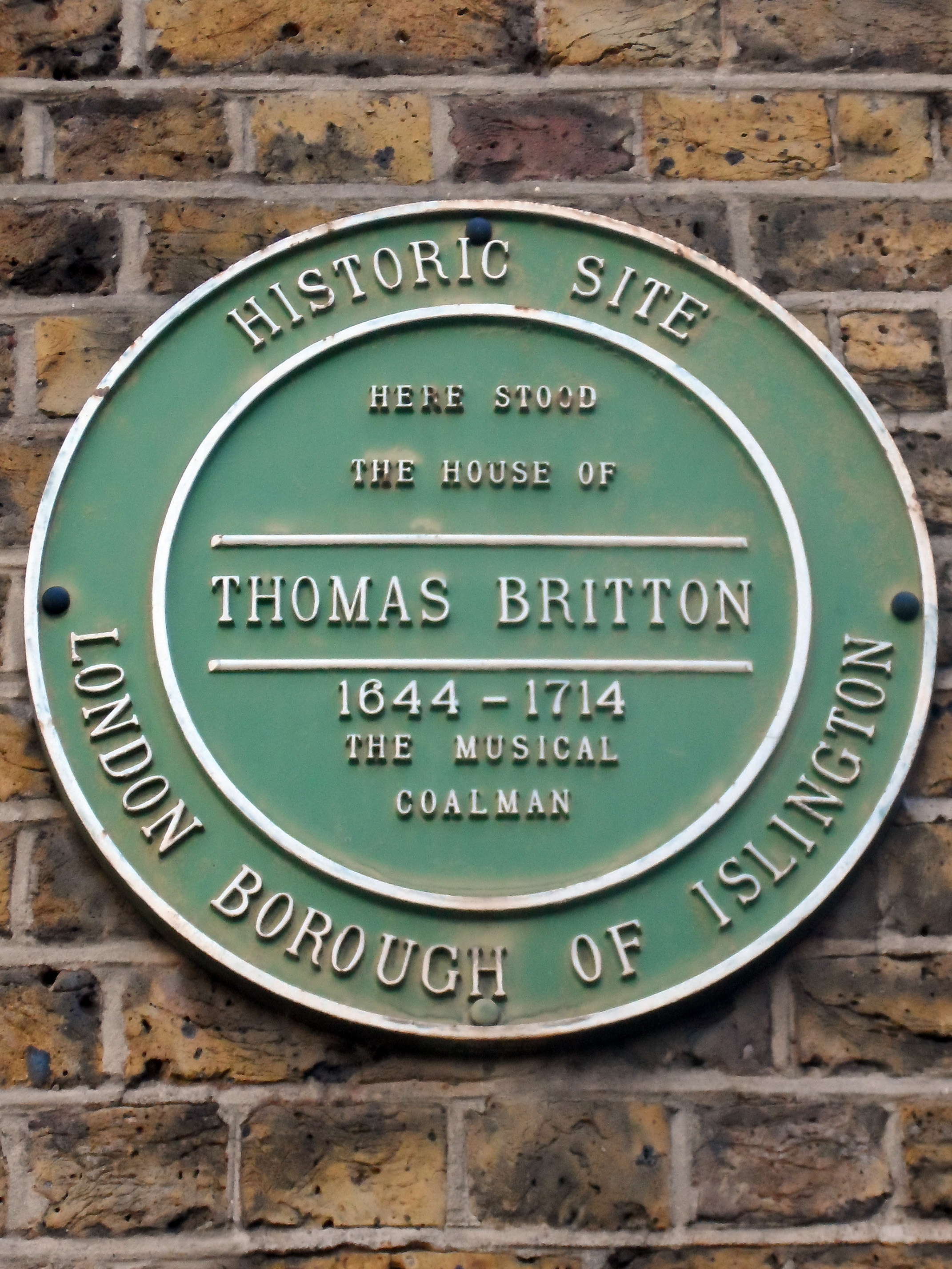 Green plaque erected by London Borough of Islington at Jerusalem Passage Clerkenwell London EC1V 4JP